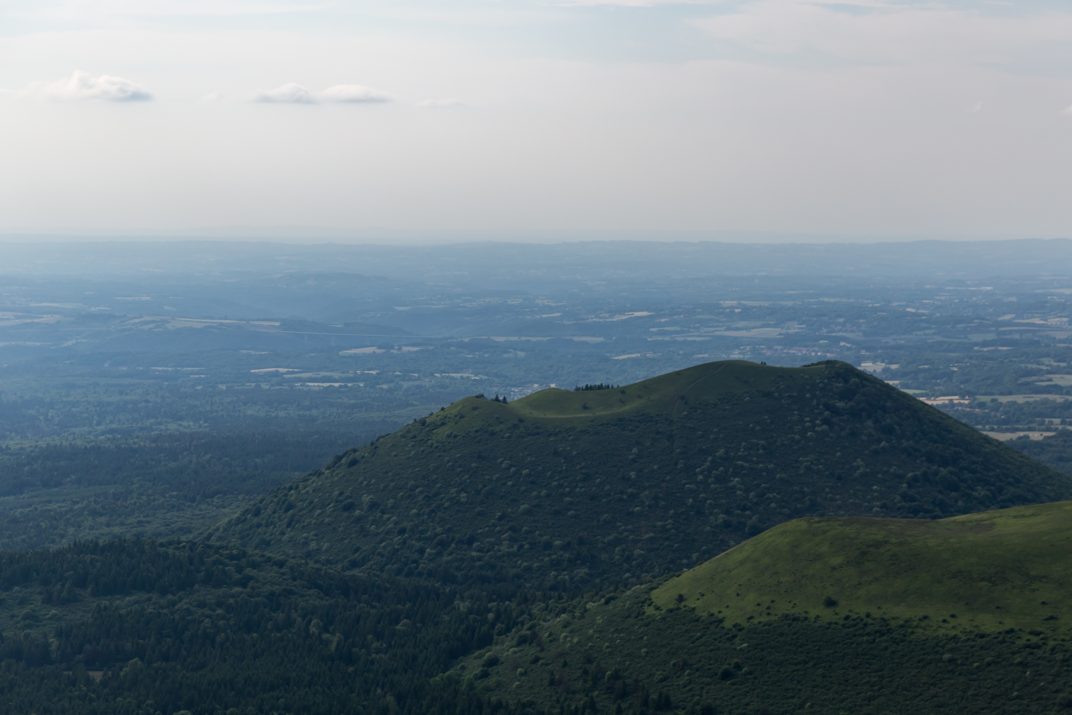 Aerial view of the southeastern slope of puy de Côme, since the puy de Dôme, France.